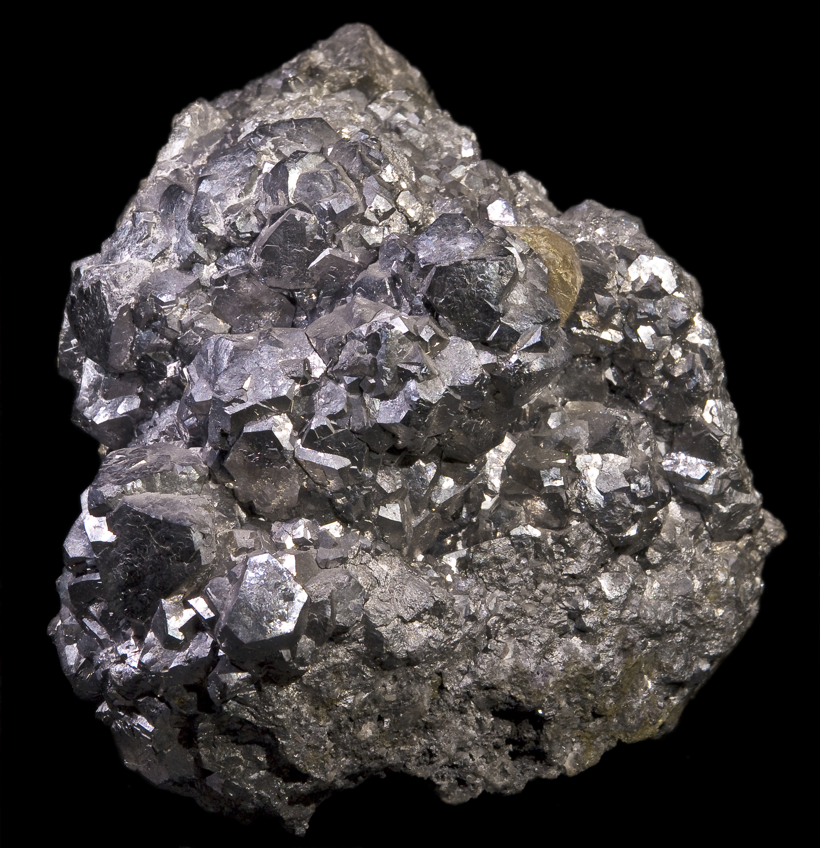 Skutterudite and Nickeline Locality : Bou Azzer District, Tazenakht, Ouarzazate Province, Souss-Massa-Draâ Region, Morocco Size : (13x11cm)